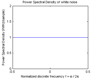 Power Spectral Density of white noise